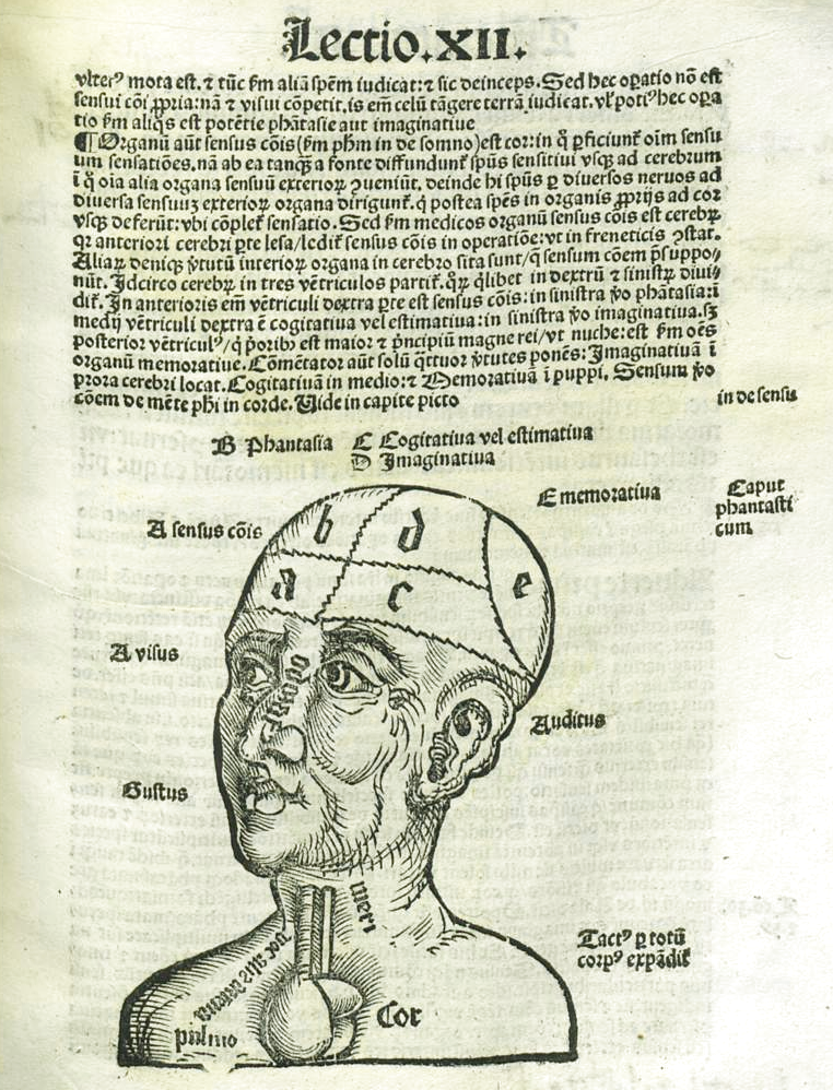 Page from Matija Hvale (Matthias Qualle) book Commentarii in parvulum philosophiae naturalis